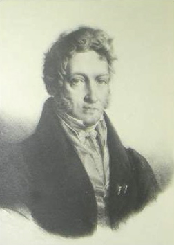 Joseph van der Linden d'Hooghvorst